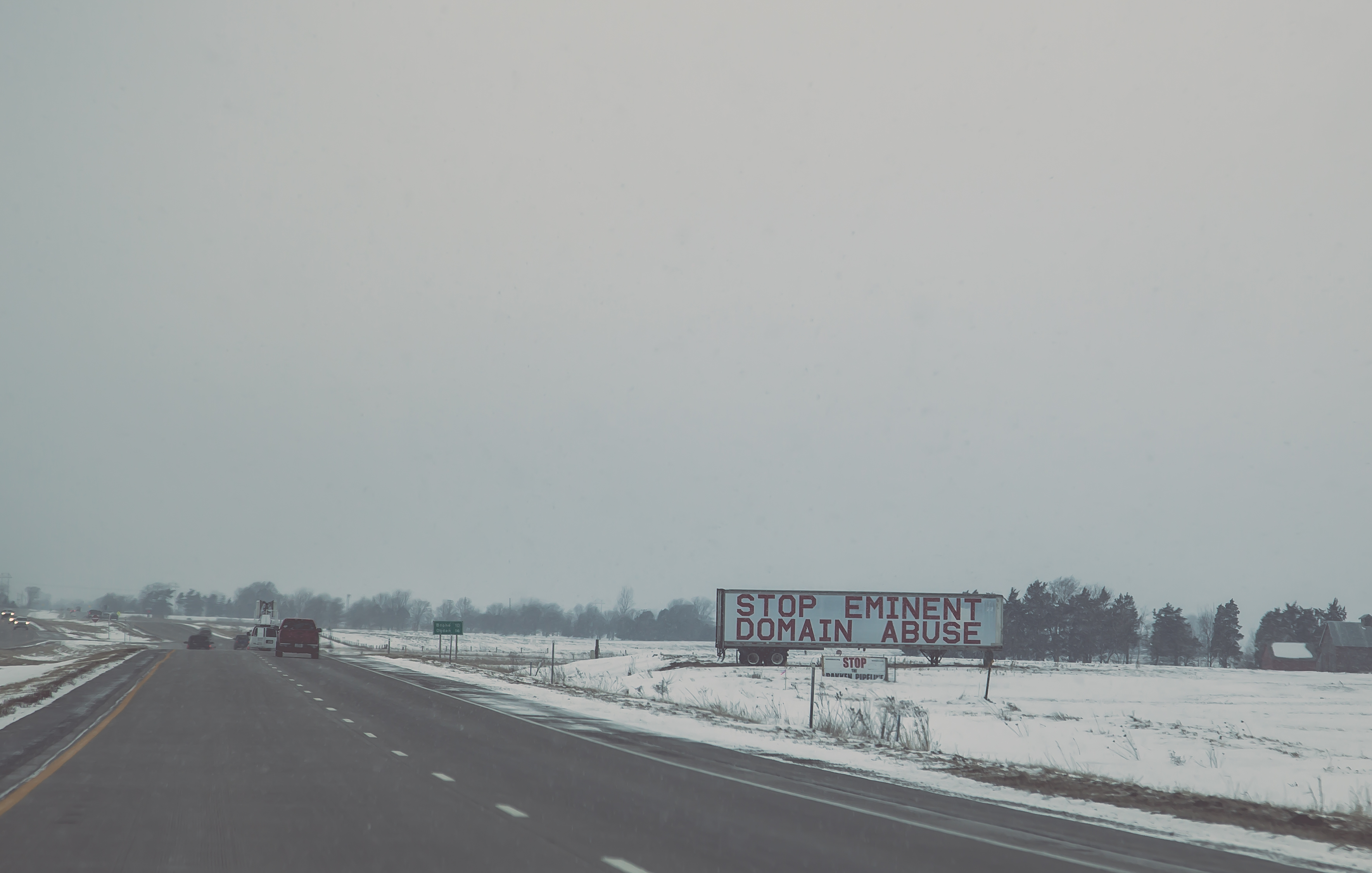 Ames, Iowa